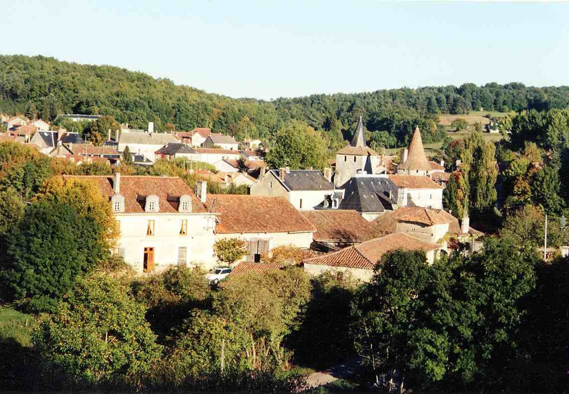 Village Javerlhac near Nontron, Dordogne, France